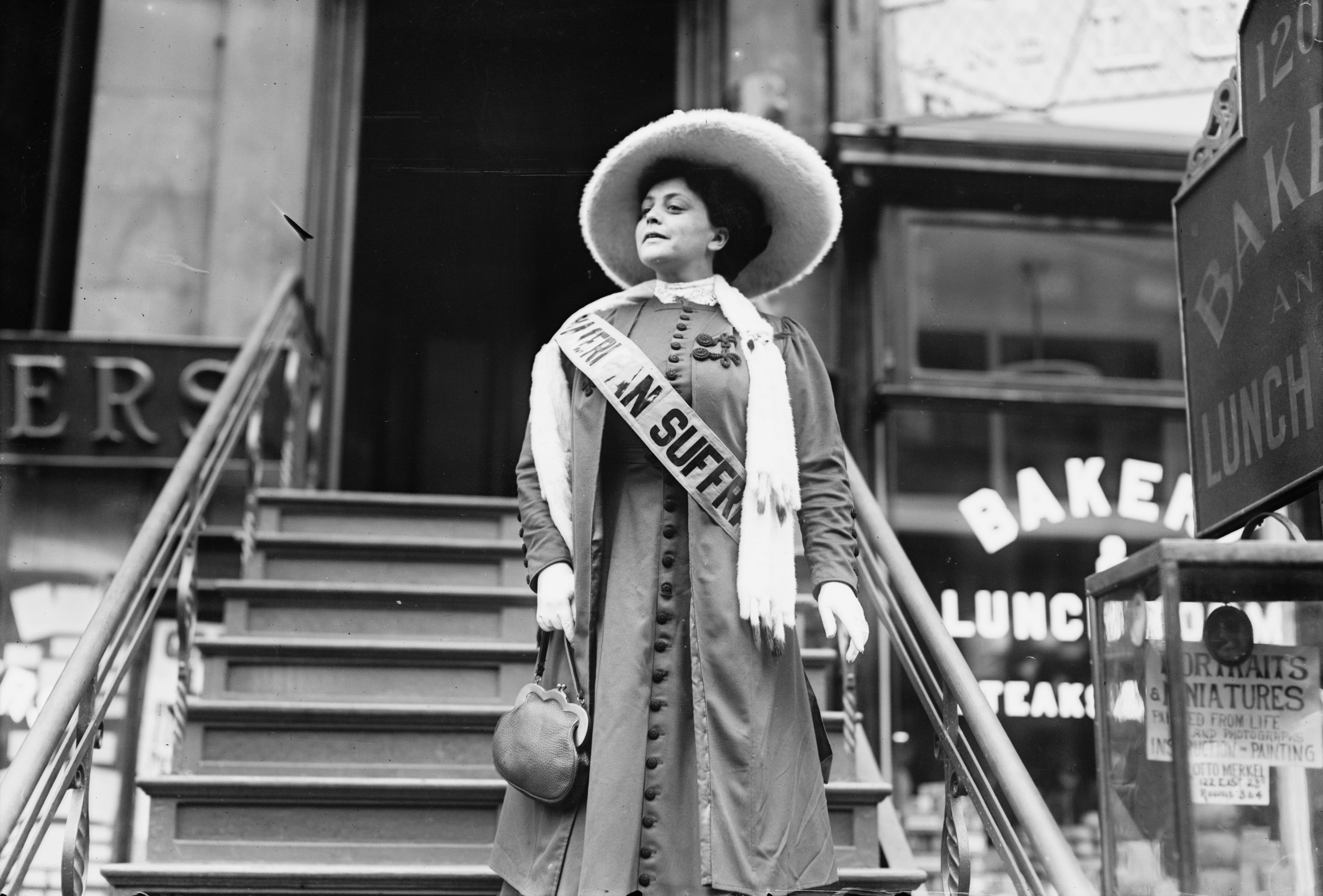 Actor and suffragette Trixie Friganza